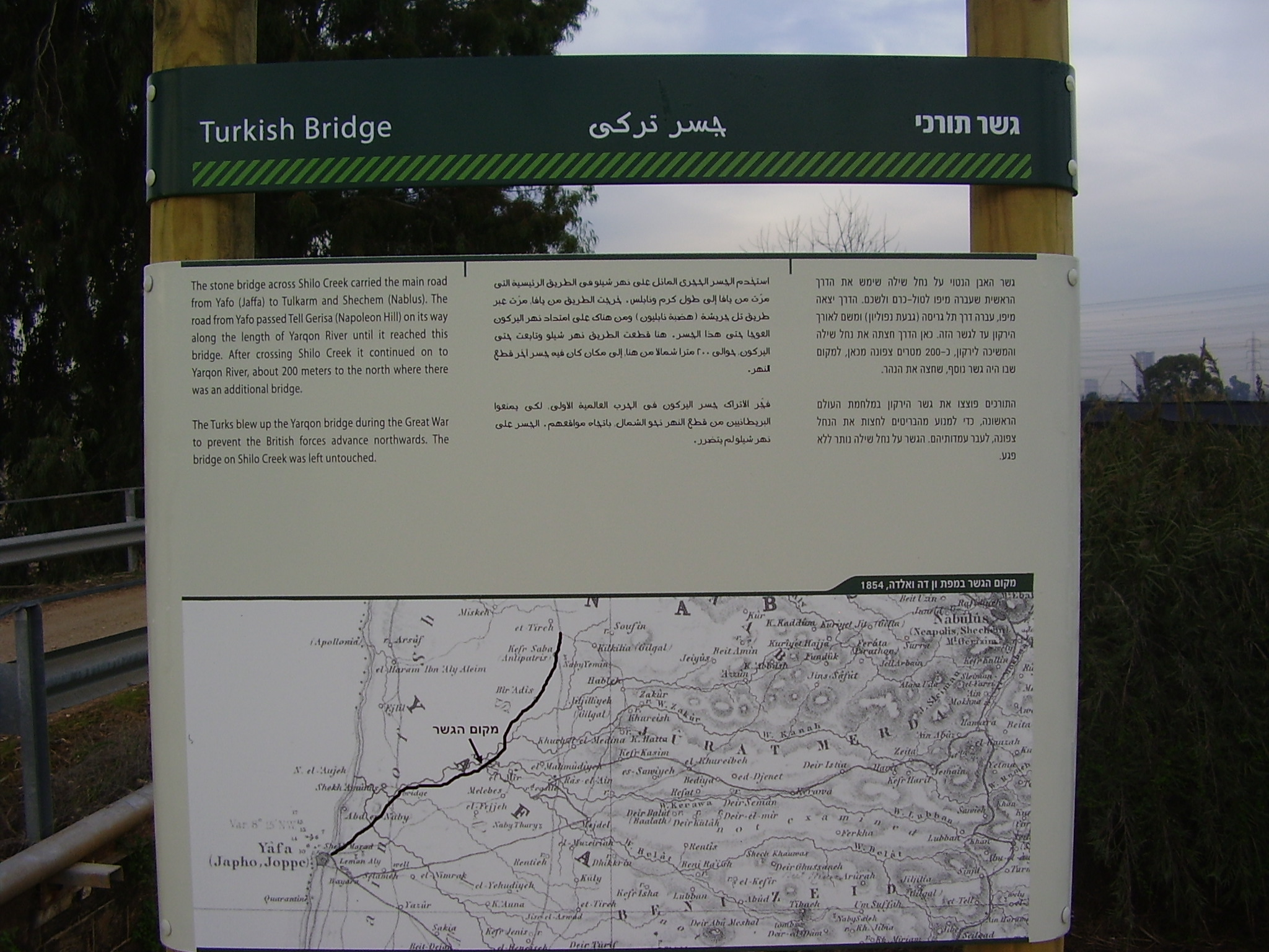 information plate on the turkish bridge on shilo river